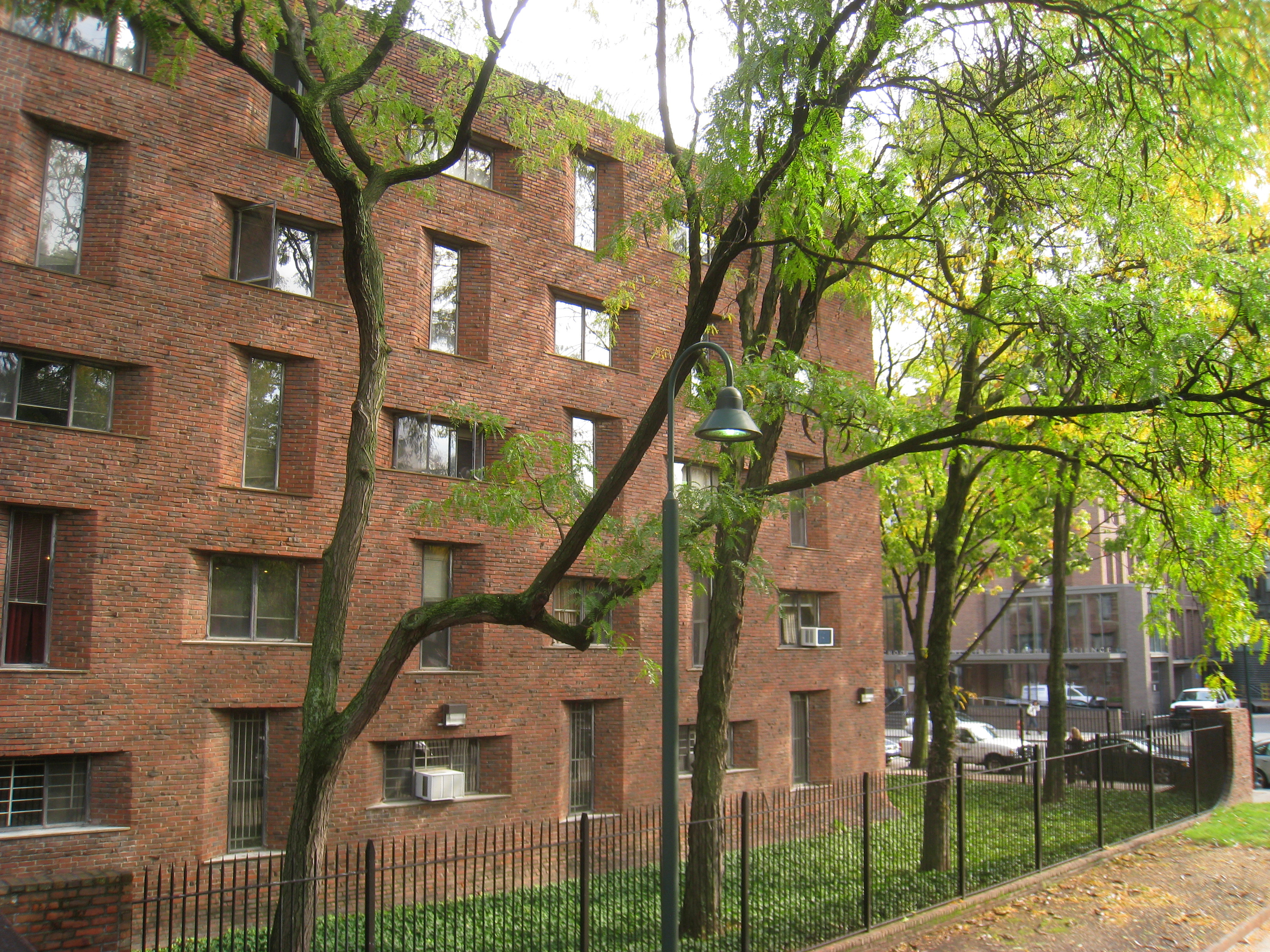 Hill College House, University of Pennsylvania, Philadelphia, Pennsylvania, USA. Eero Saarinen, architect.